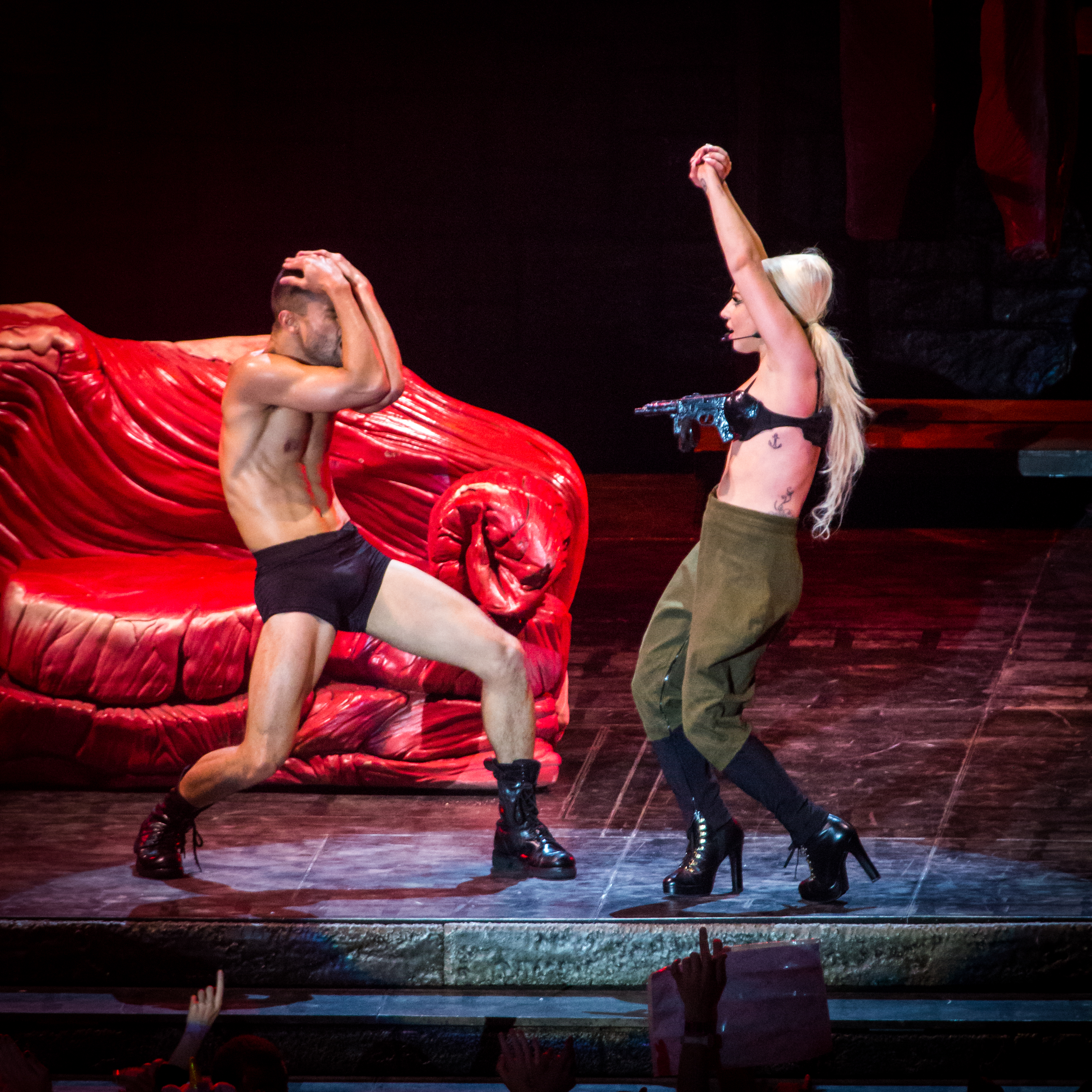 Lady Gaga performing "Alejandro" on The Born This Way Ball Tour in Manchester, UK.